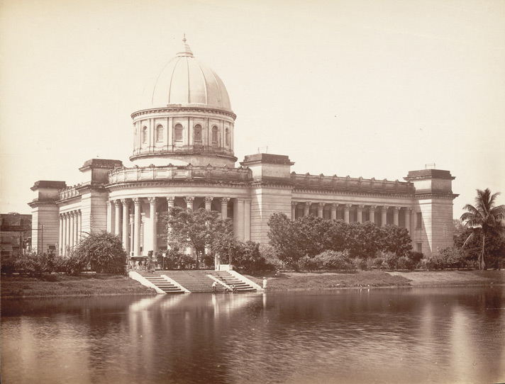 Photo taken by an unknown photographer in the 1880s in Calcutta, part of the Bellew Collection of Architectural Views, with a view looking across the tank (reservoir) in Dalhousie Square towards the General Post Office on the north-west corner. As the capital of the British in India in the 19th century, Calcutta was endowed with many buildings projecting appropriate grandeur. Imposing edifices such as the post office, constructed in a neo-classical style and gleaming white with 'chunam', a form of polished stucco made of burnt seashells, helped Calcutta gain the epithet 'City of Palaces'. The city's Tank Square was renamed Dalhousie Square after Lord Dalhousie, Governor-General 1848-56. The new General Post Office was on the site of the New Custom House and the Old Fort. It was built in 1868 by Walter L. B. Granville (1819-74), who acted as consulting architect to the government of India from 1863 to 1868.